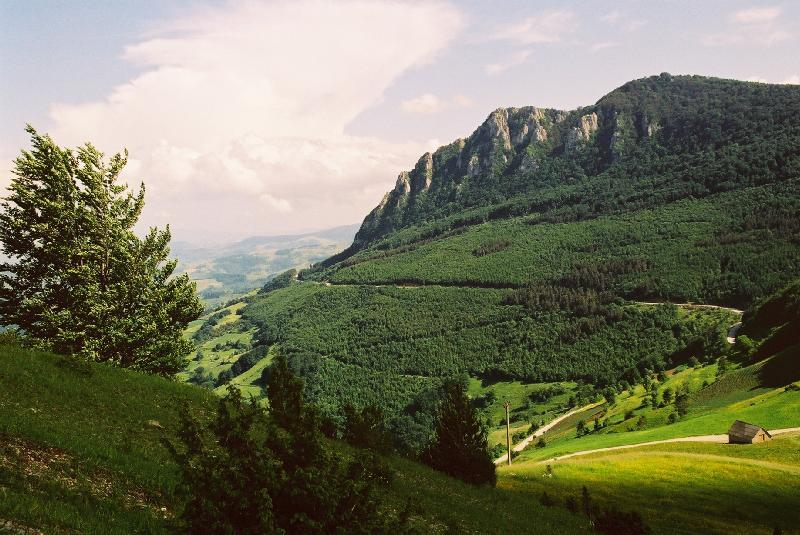 Counstryside near the town of Ivanjica, Serbia/La campagne près de la ville d'Ivanjica, Serbie